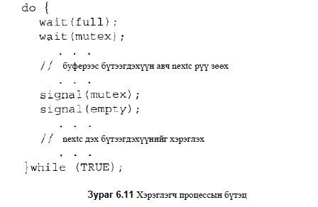 a,araaa